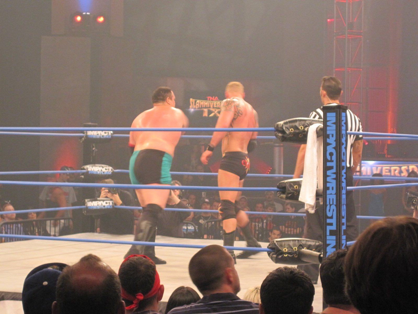 Sunday, June 12, 2011. Universal Orlando